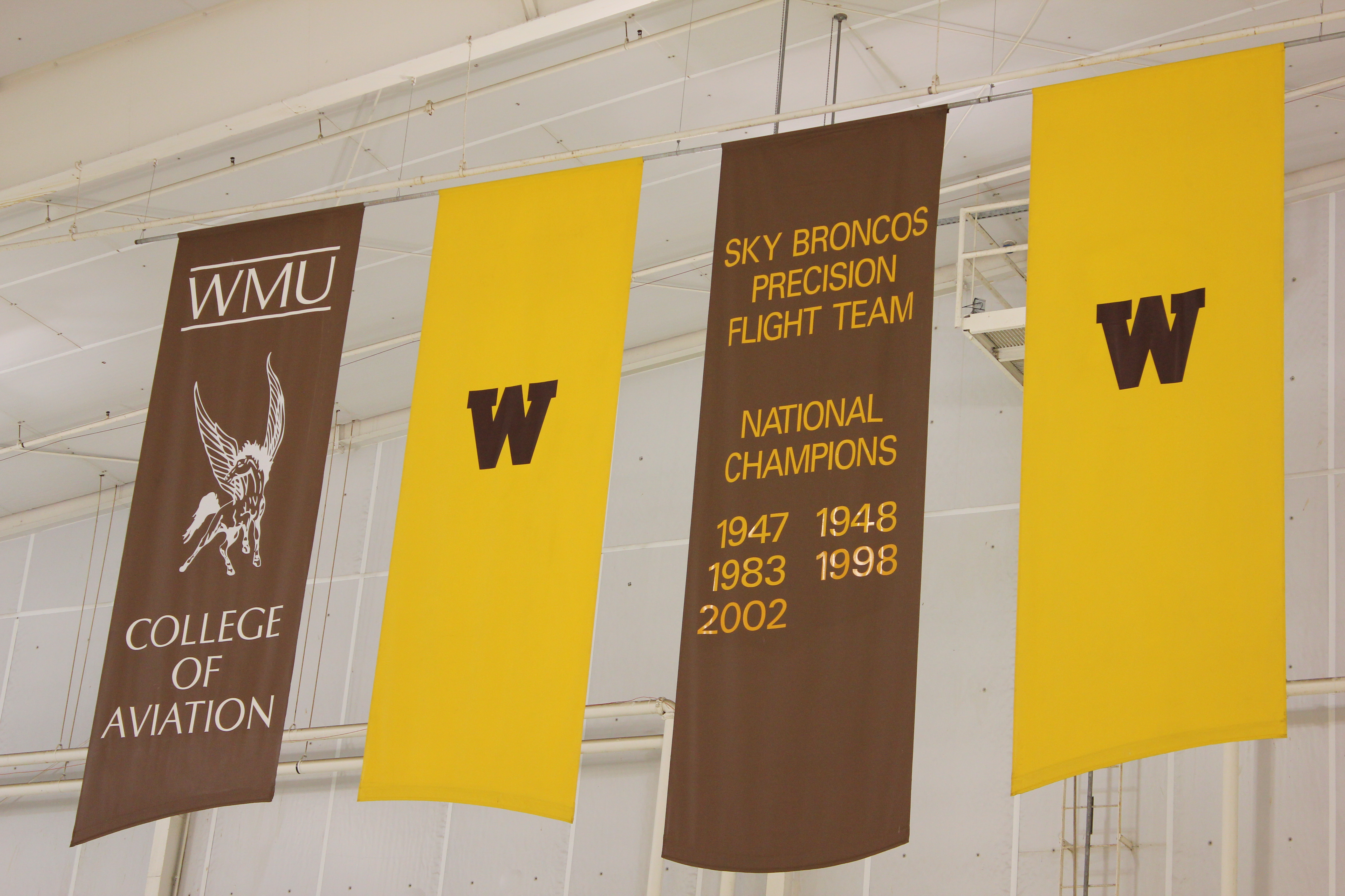 Banner hanging in the main hangar at the College of Aviation at Western Michigan University in Battle Creek, Michigan. This banner displays the SkyBroncos Precision Flight Team's National Championship awards as well as the College of Aviation logo.